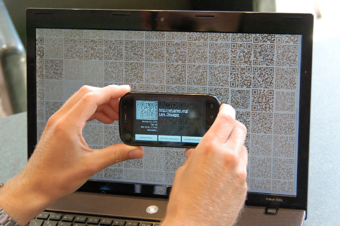 Impressions Wikimania 2011 Haifa